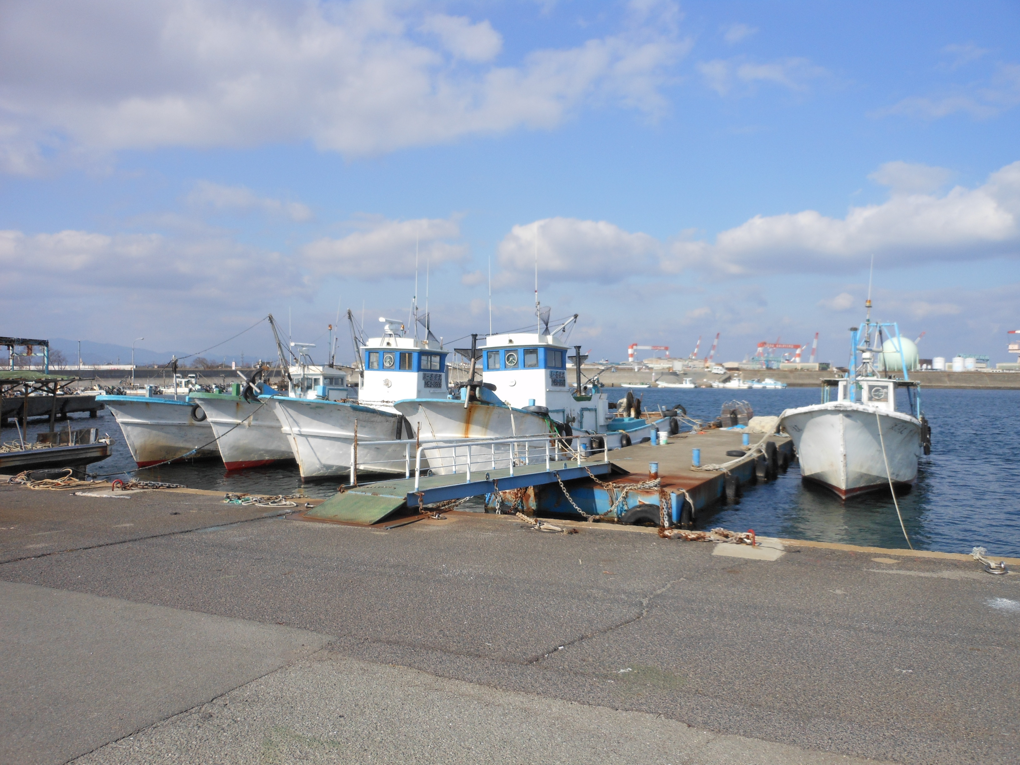 This is the Karasu fish port in Tsu, Mie, Japan.